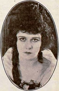 American actress Ora Carew, on page 4979 of the June 19, 1920 Motion Picture News.